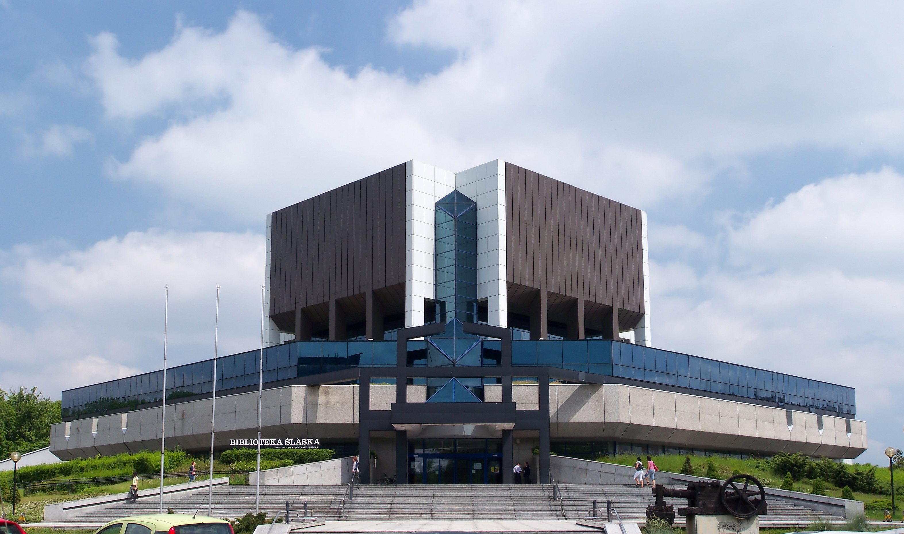 The Silesian Library in Katowice.